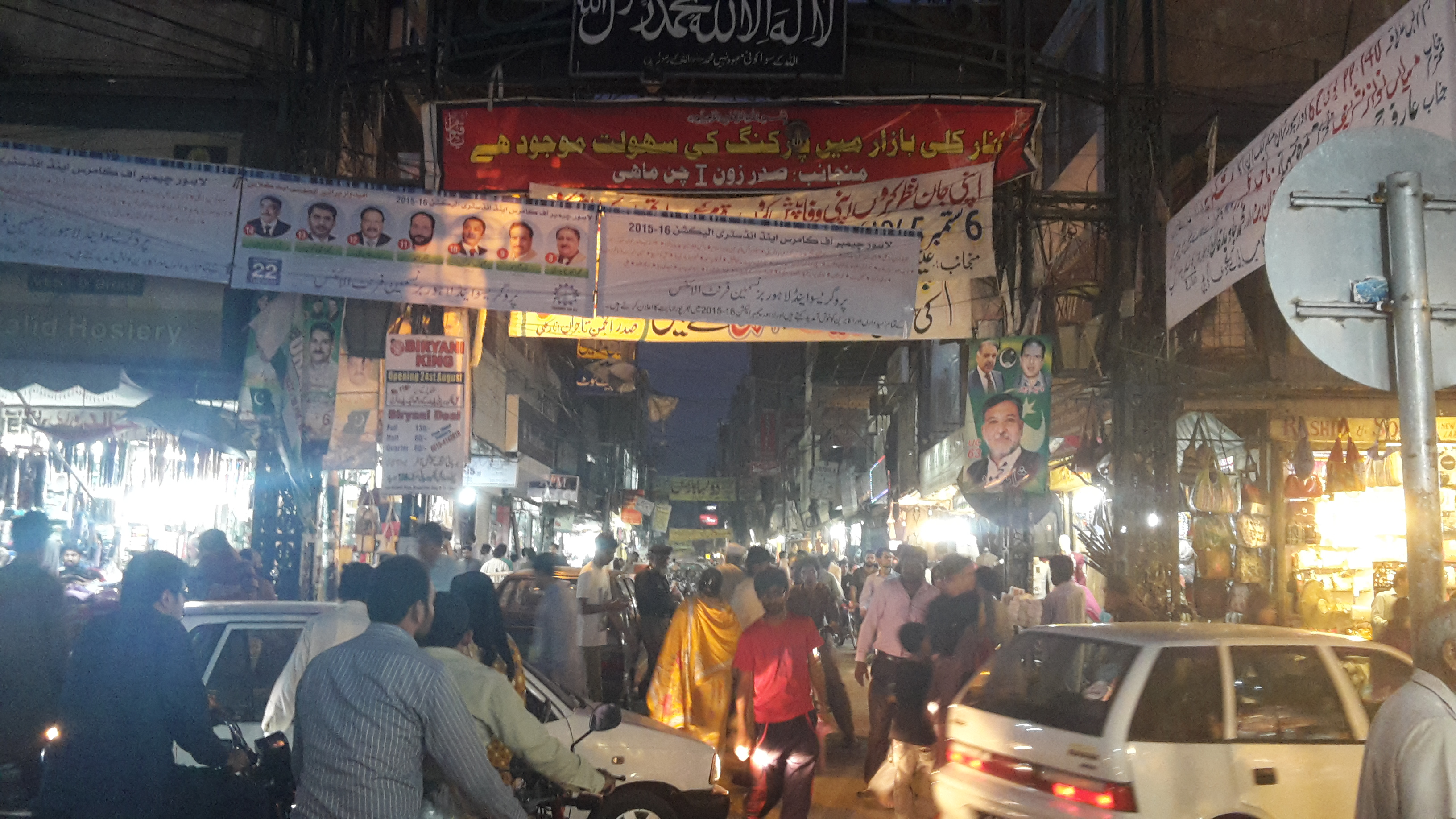 anarkali bazar lahore , main gate